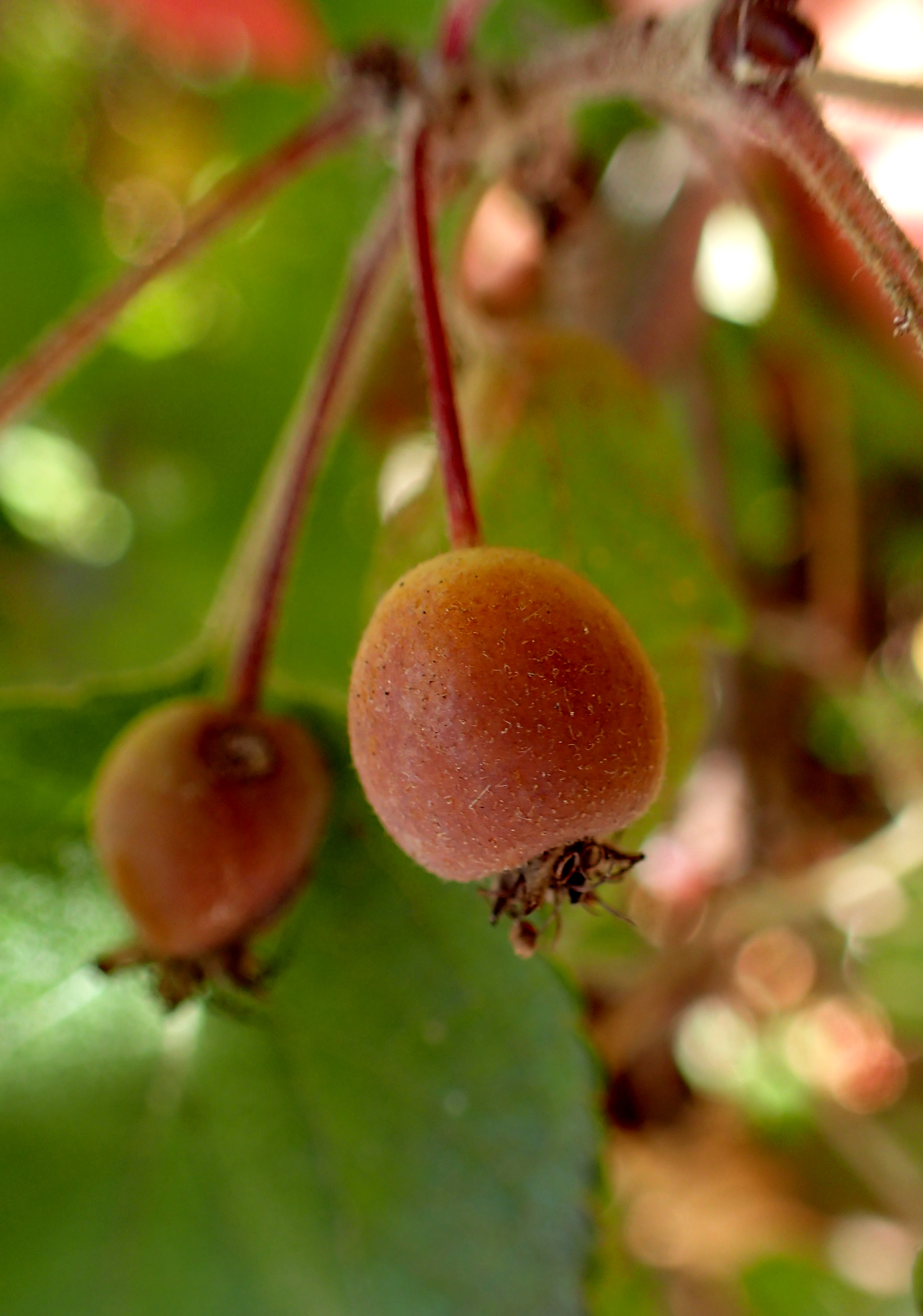 Malus fusca in the Humboldt Botanical Garden, Eureka, Ca